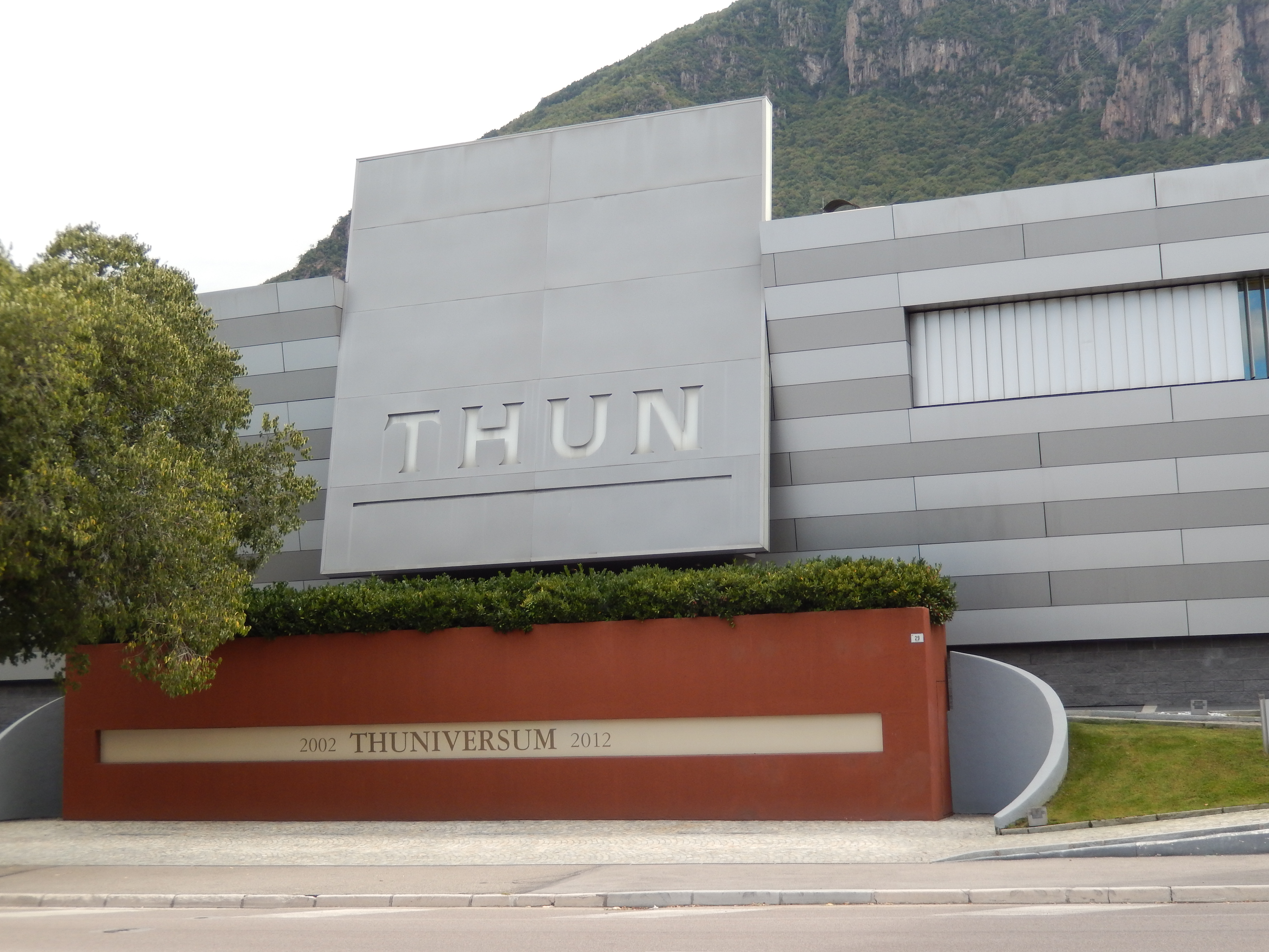 THUNIVERSUM Exhibition and shop in Bolzano, Italy.